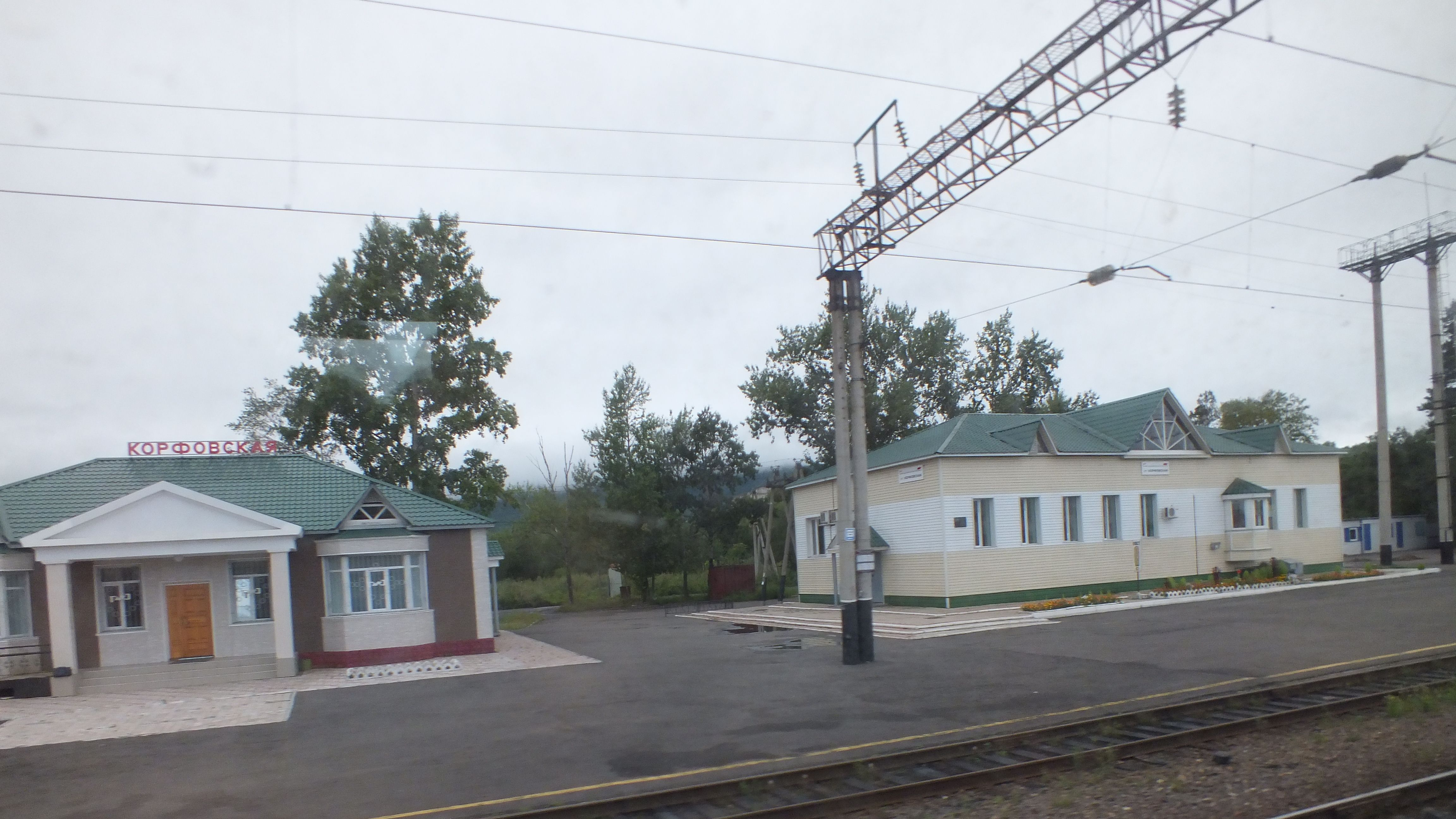 Khabarovsk Krai